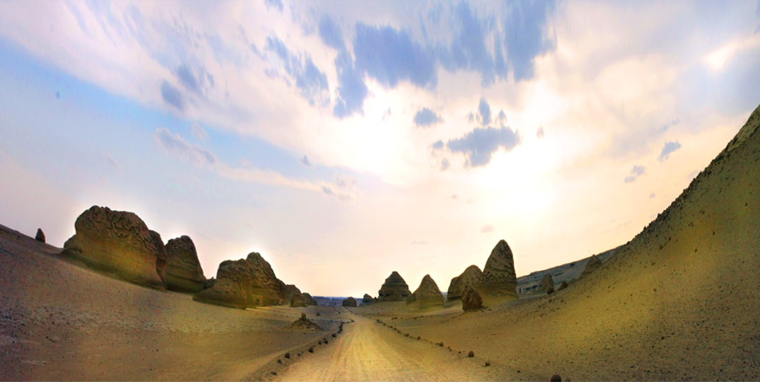 Wadi Degla - Egypt